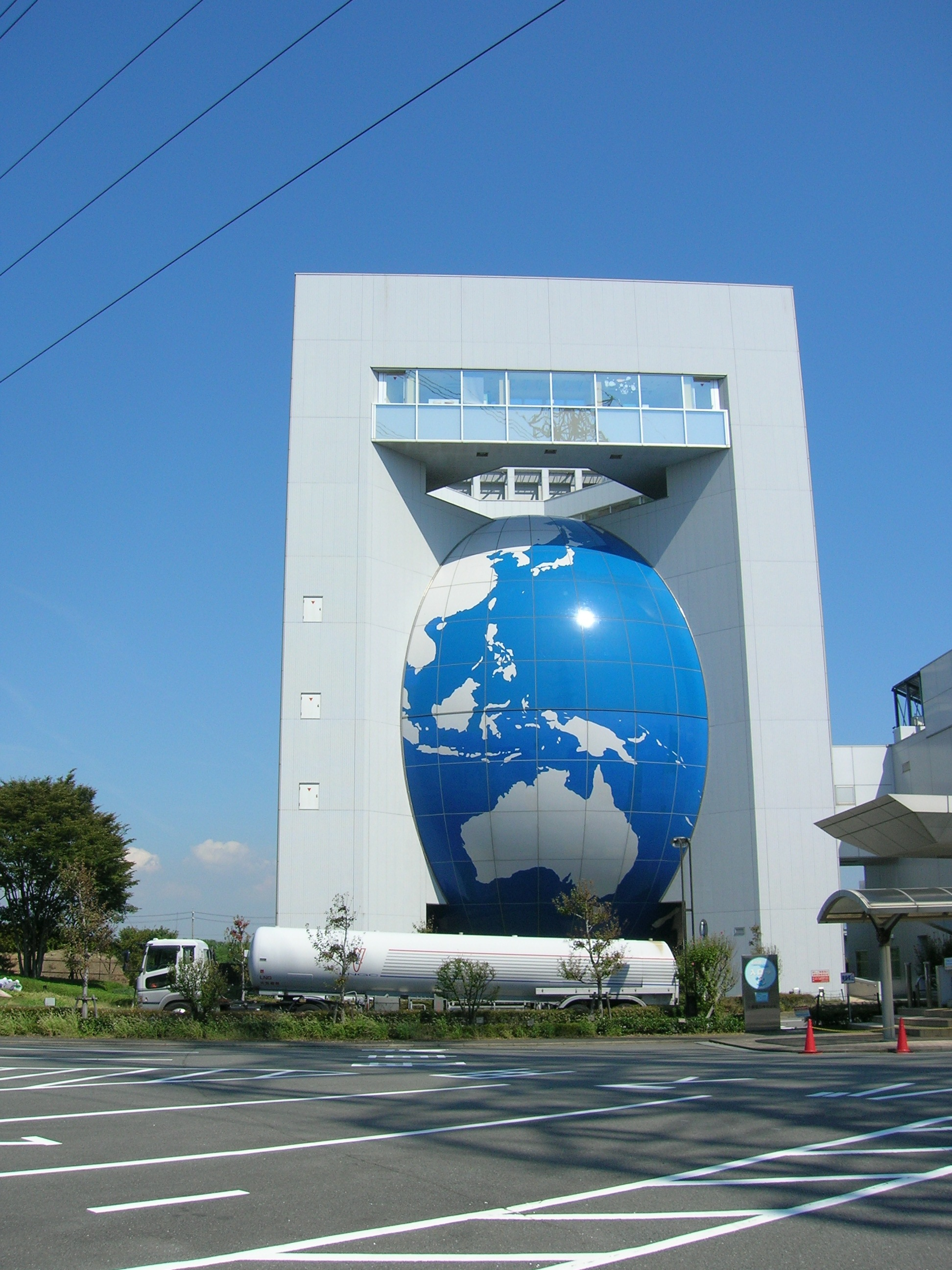 Kawagoe Denryoku-kan TERA46. Loc: Kawagoe Thermal Power Plant, Kawagoe town, Mie distract, Mie Prefecture, Japan. 川越電力館テラ46 撮影場所 三重県三重郡川越町・川越火力発電所